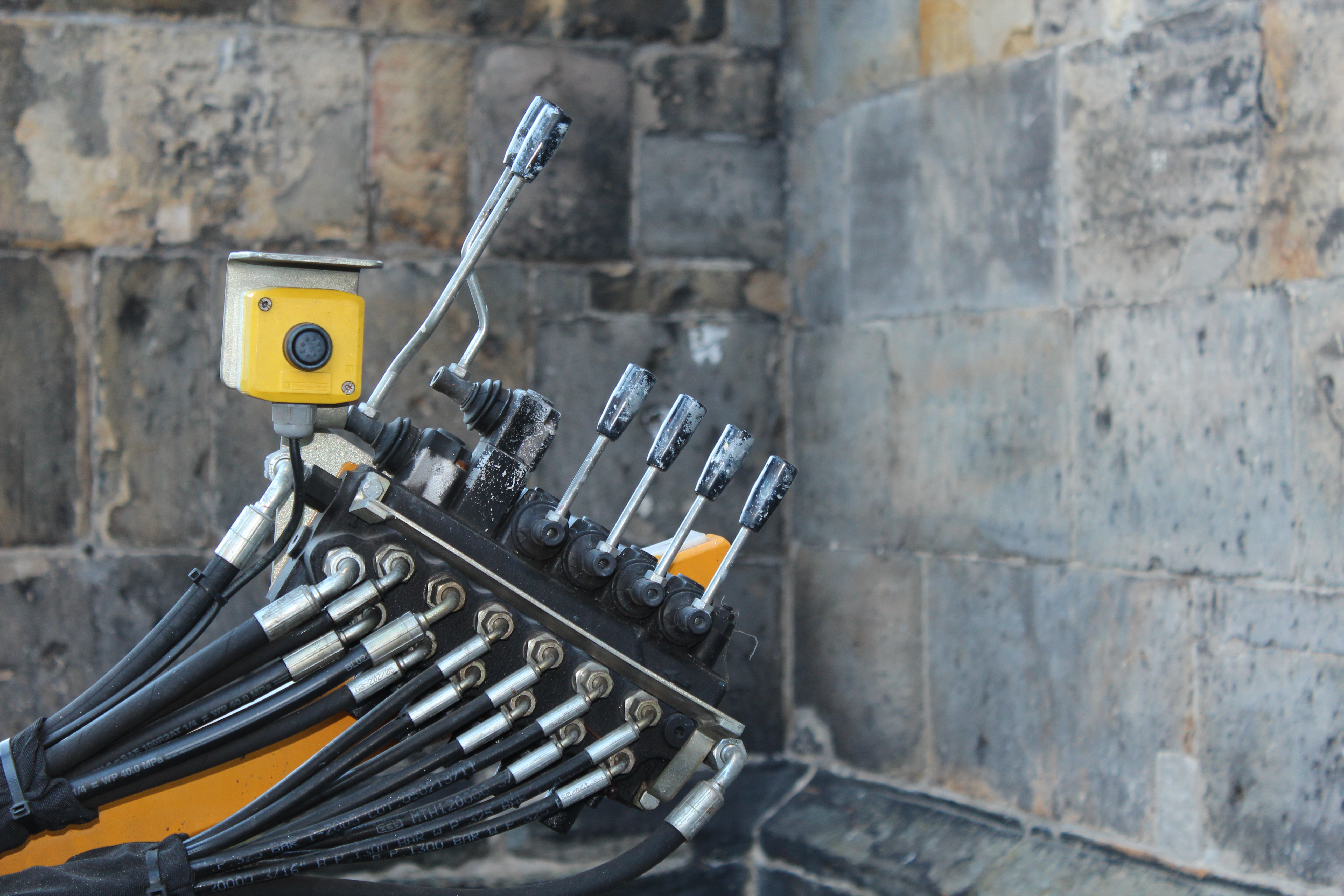 Hydraulic control valves for a mobile scissor lift.